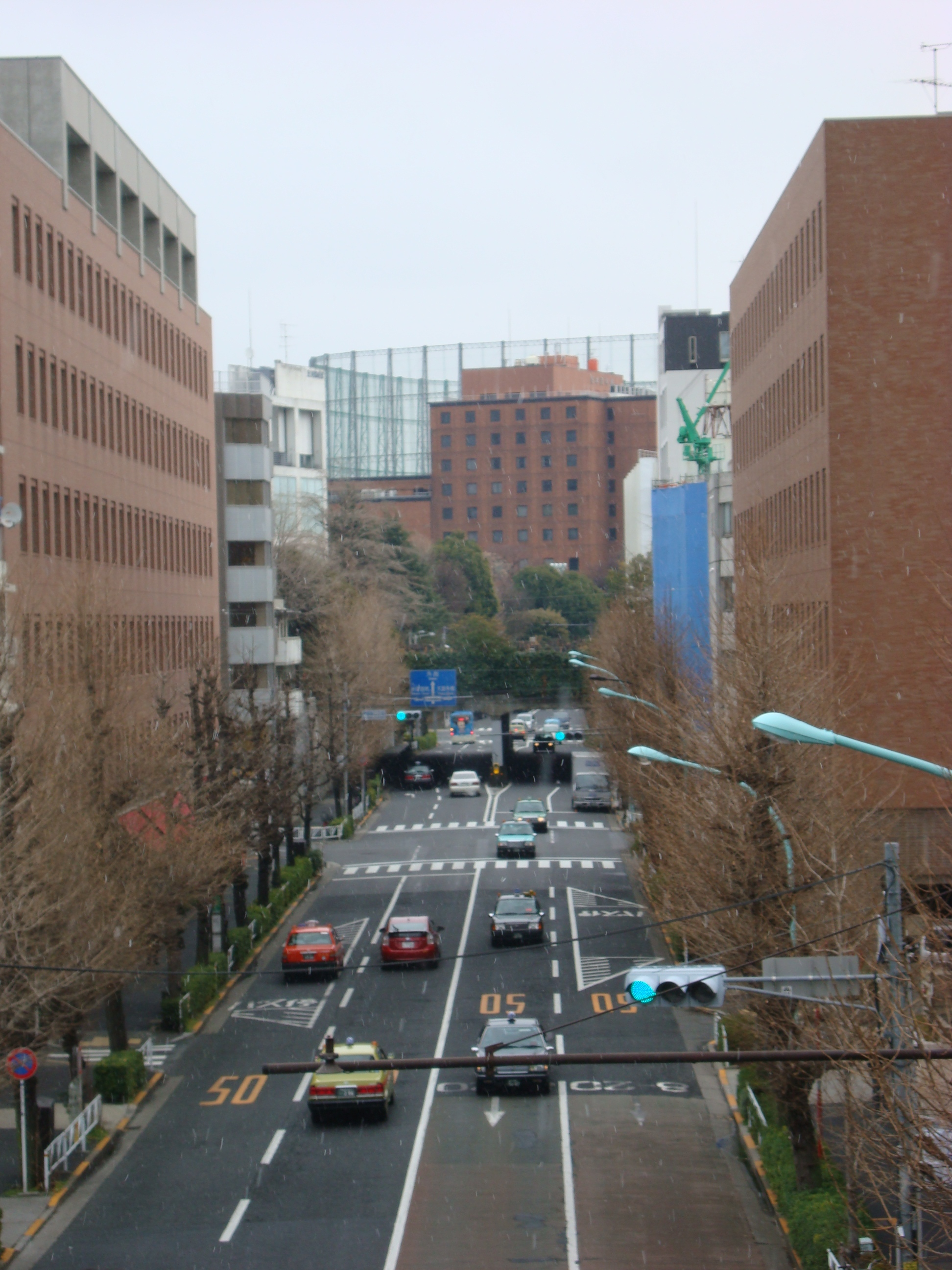 A street in Sendagaya, Shibuya city, Tokyo 東京都市計画道路補助線街路第24号線 （渋谷区千駄ヶ谷）